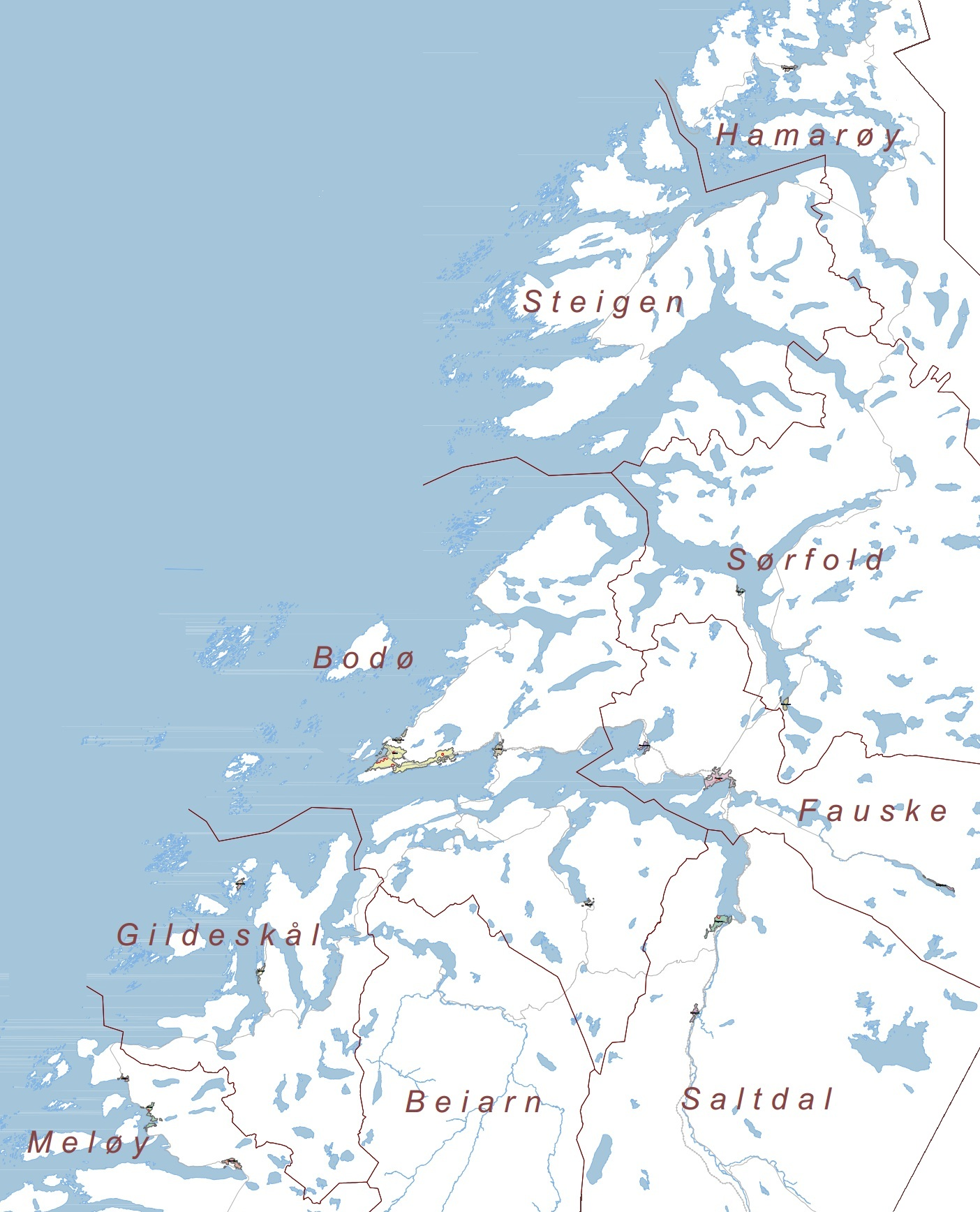 Urban areas in the Norwegian district of Salten, in Nordland county.